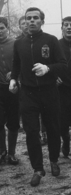 Luxembourg football player in 1963